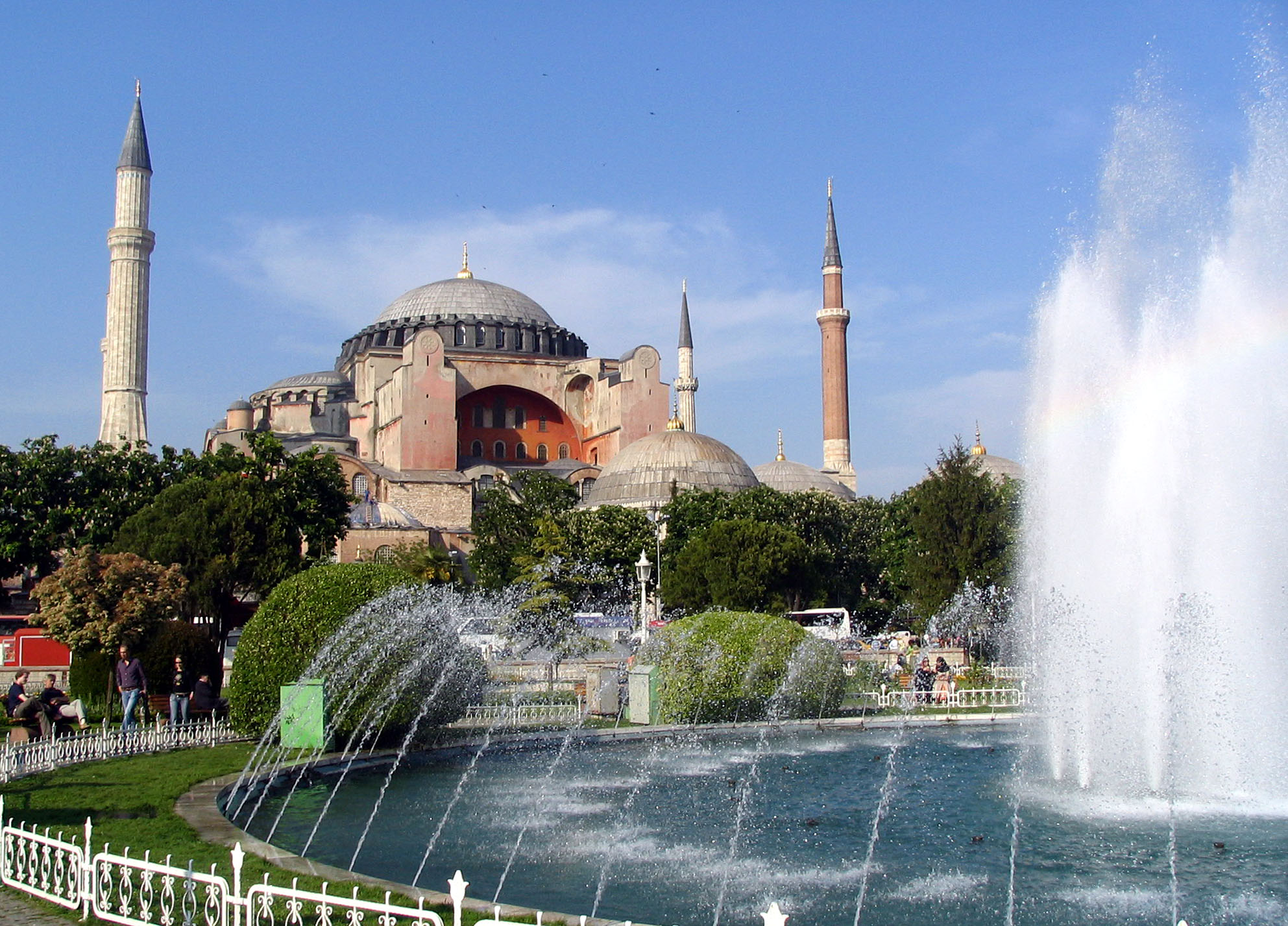 Exterior of Hagia Sophia, Istanbul, Turkey. May 2006. Photo by Winstonza talk